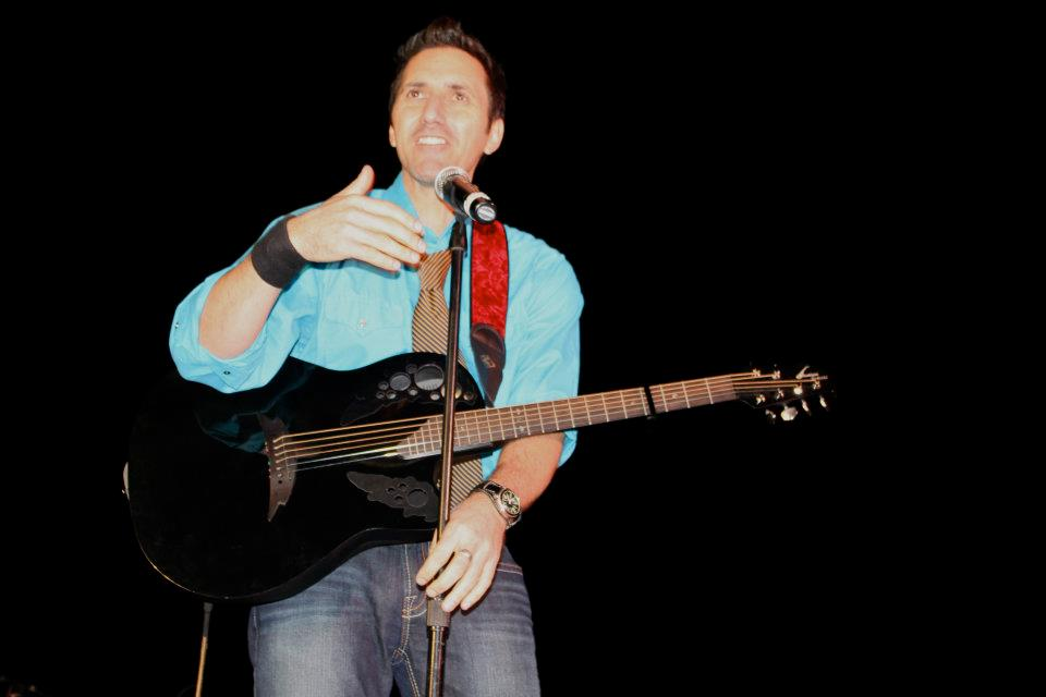 Much of Coleman's new performance work incorporates guitar and piano.